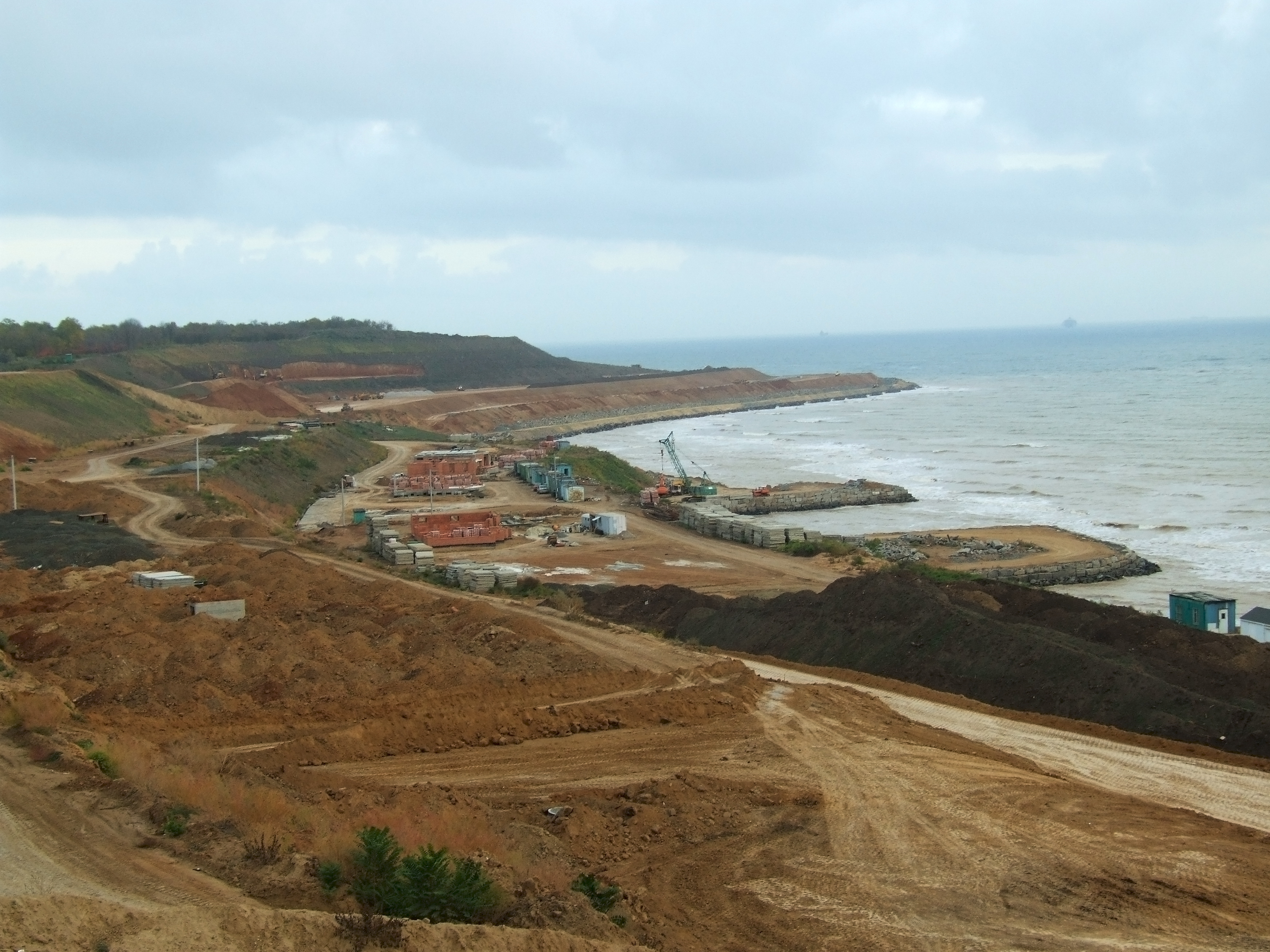 A building of new district at Cape Pivnichnyi-Odeskyi near Lisky village, Kominternivskyi Raion, Odessa Oblast, Ukraine